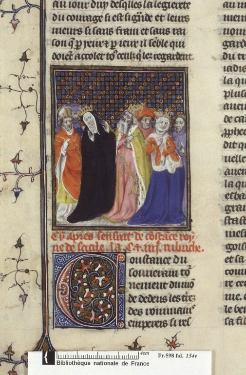 "Coronation of Constance of Sicily", Boccaccio, De mulieribus claris, 15th century manuscript